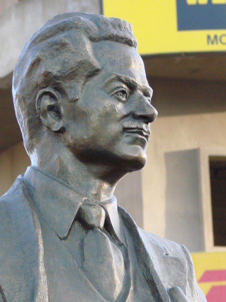 A photo of the Statue of Hassan Kamel Al-Sabbah taken in his hometown in Nabatieh.